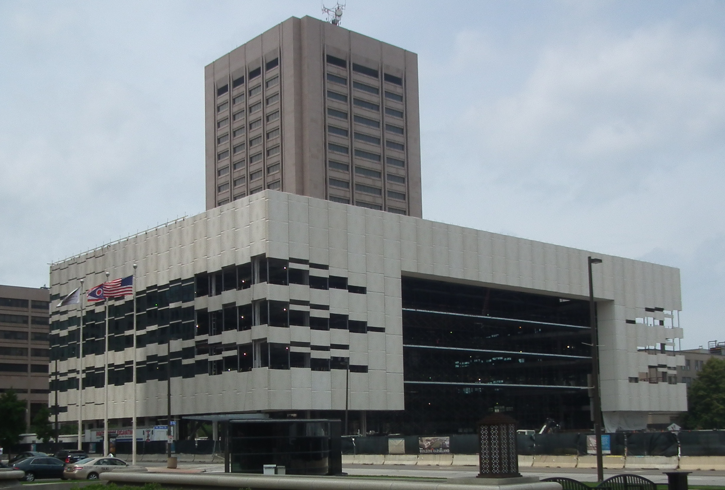 The Cleveland Medical Mart building under construction at the corner of St. Clair Avenue and Ontario Street